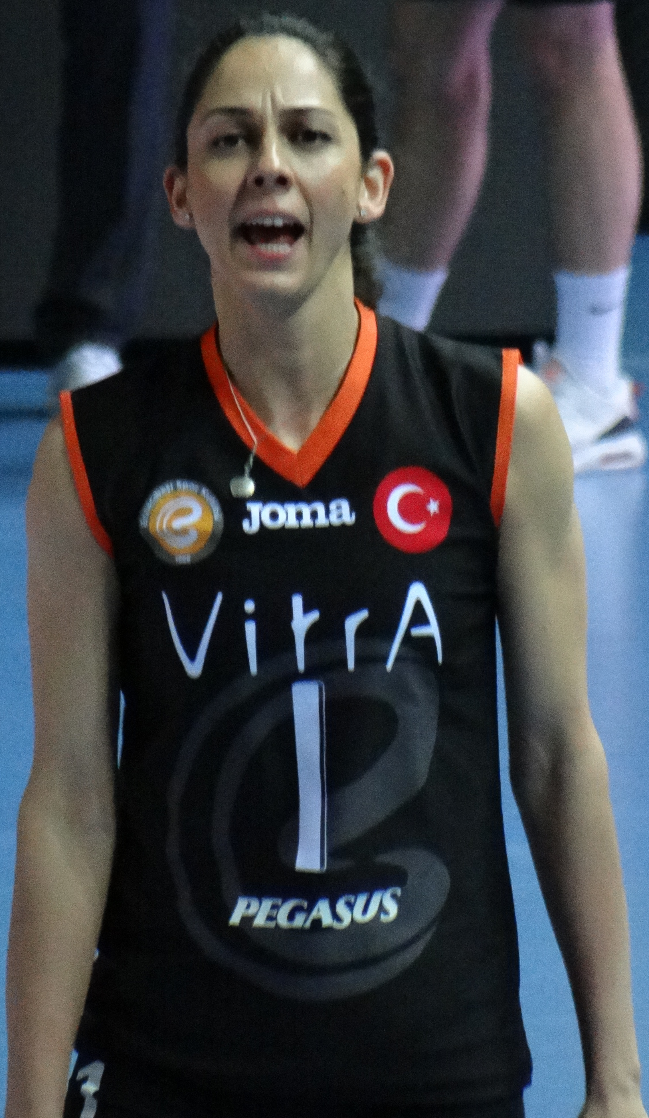 Güldeniz Önal 1 Eczacıbaşı VitrA TWVL 20180426